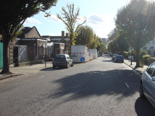 Pangbourne Avenue